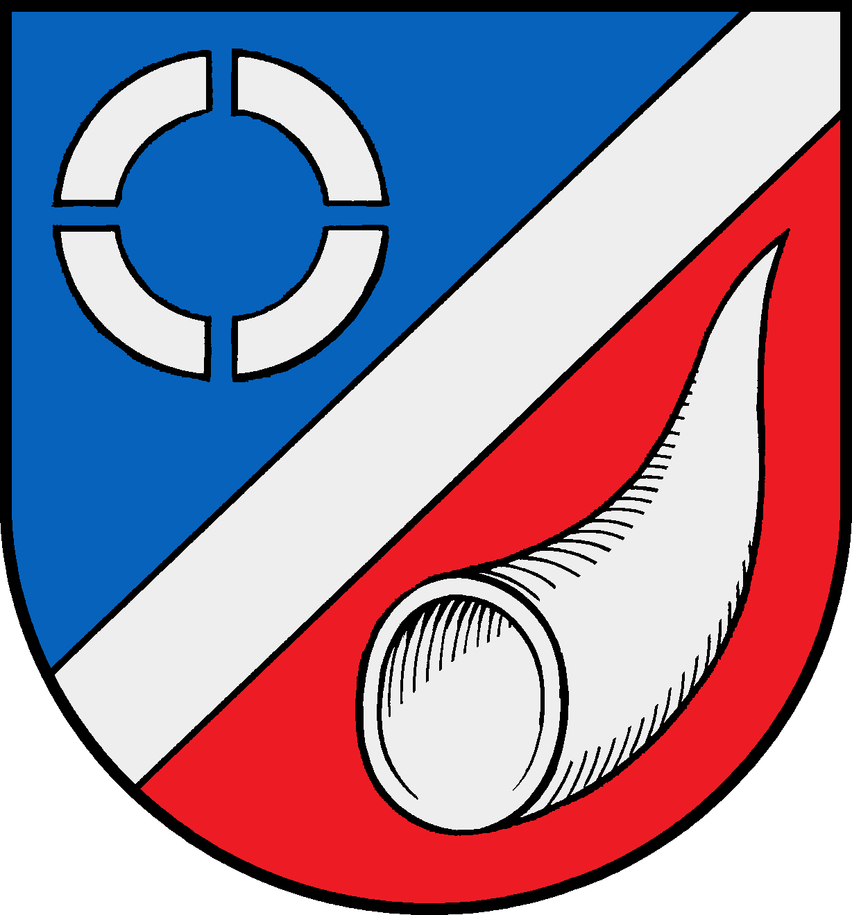 Coat of arms of the municipality Schellhorn in Schleswig-Holstein, Germany.